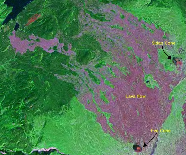 Geologic map of lava flow and the Eve and Sidas Cones of the Mount Edziza volcanic complex in northern British Columbia, Canada.